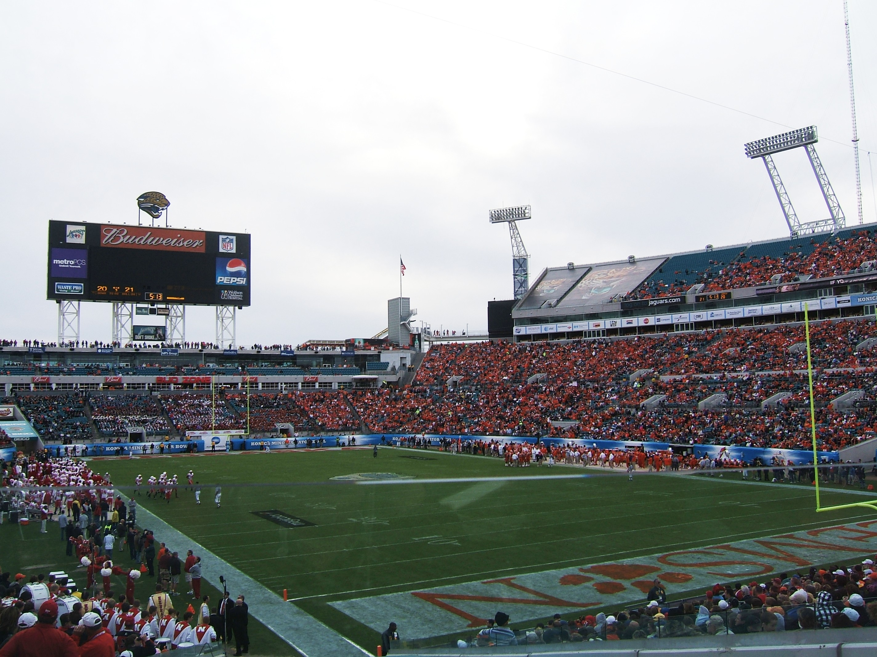 The 2009 Gator Bowl between the Nebraska Cornhuskers and the Clemson Tigers during the fourth quarter.